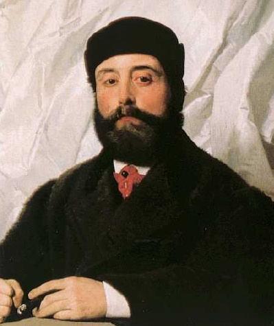 Elba island